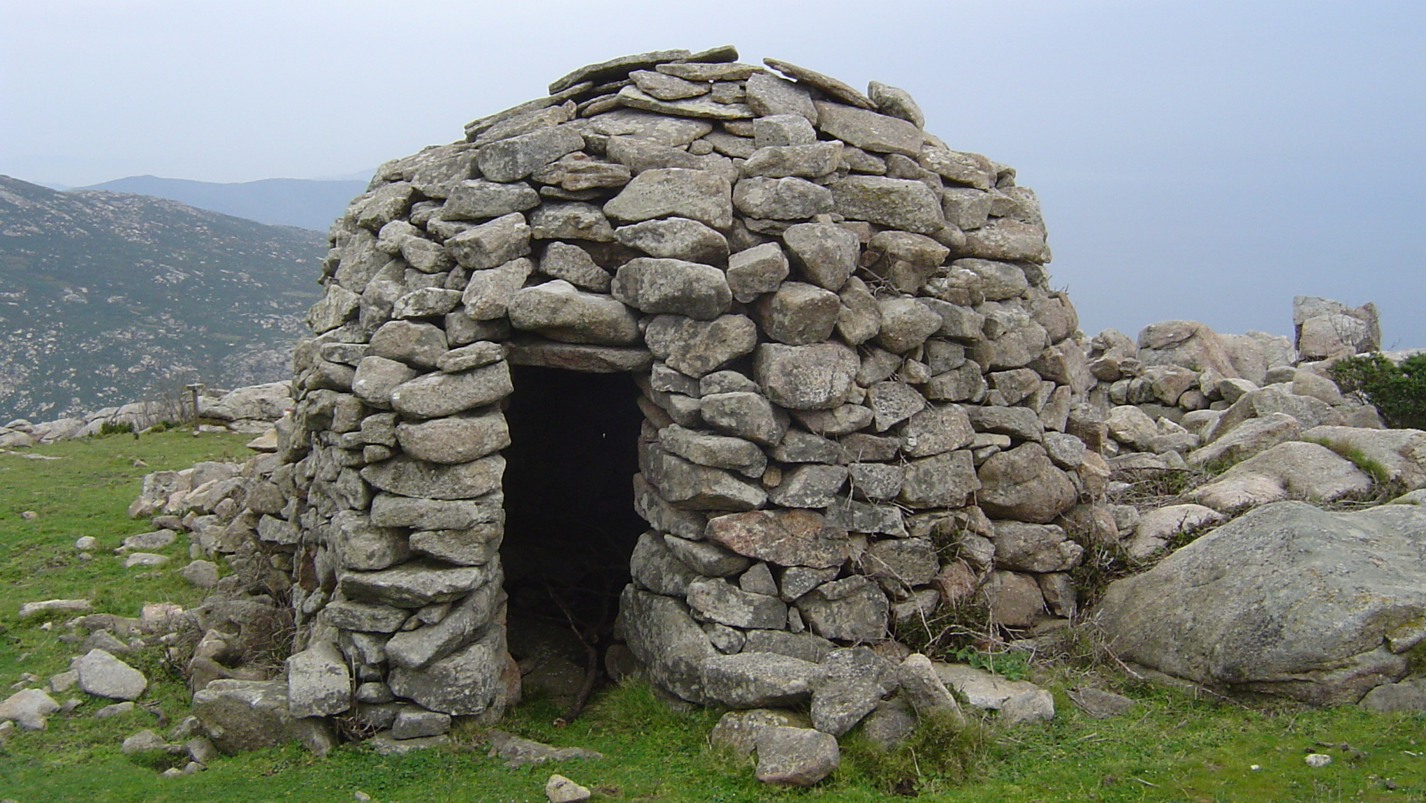 Elba island